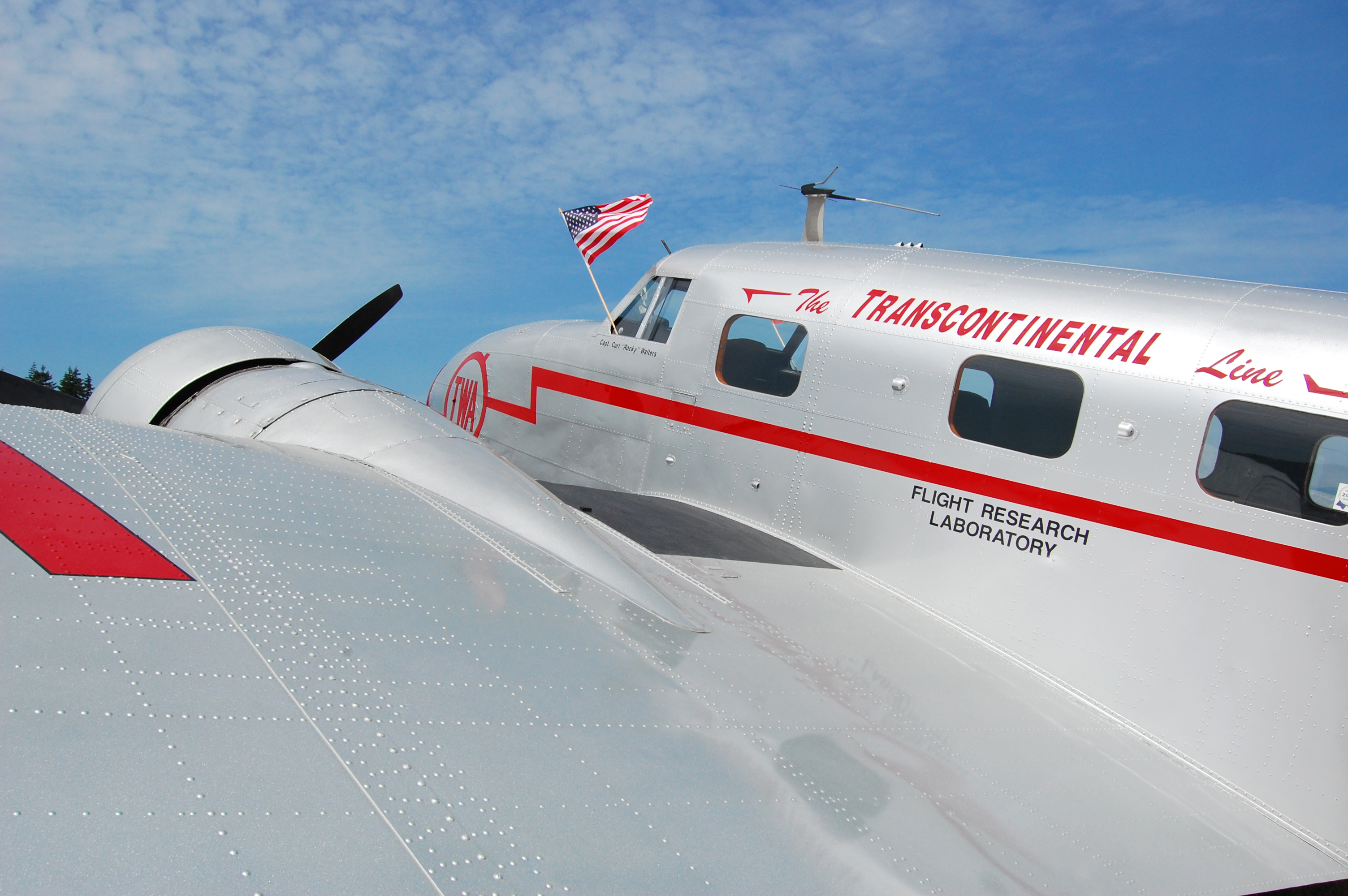 Lockheed 12A NC18137 at the 2007 Arlington Fly-In in Arlington, Washington. Built in 1937 for Continental Air Lines, this airplane was transferred in 1940 to Transcontinental & Western Air, who used it as an executive transport and research aircraft. One of its frequent pilots was TWA co-founder Paul E. Richter; his daughter, Ruth Richter Holden, acquired the airplane in 2005 and restored it to its TWA appearance.